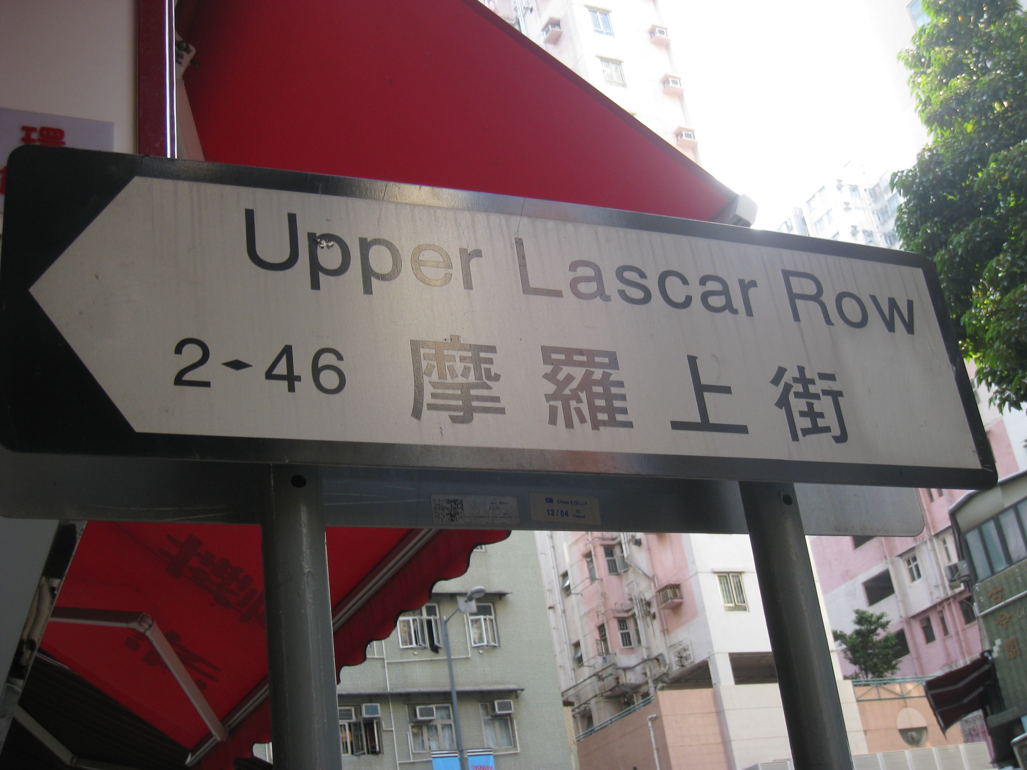 The meaning of the name "Upper Lascar Street" has to trace back to early times in HK